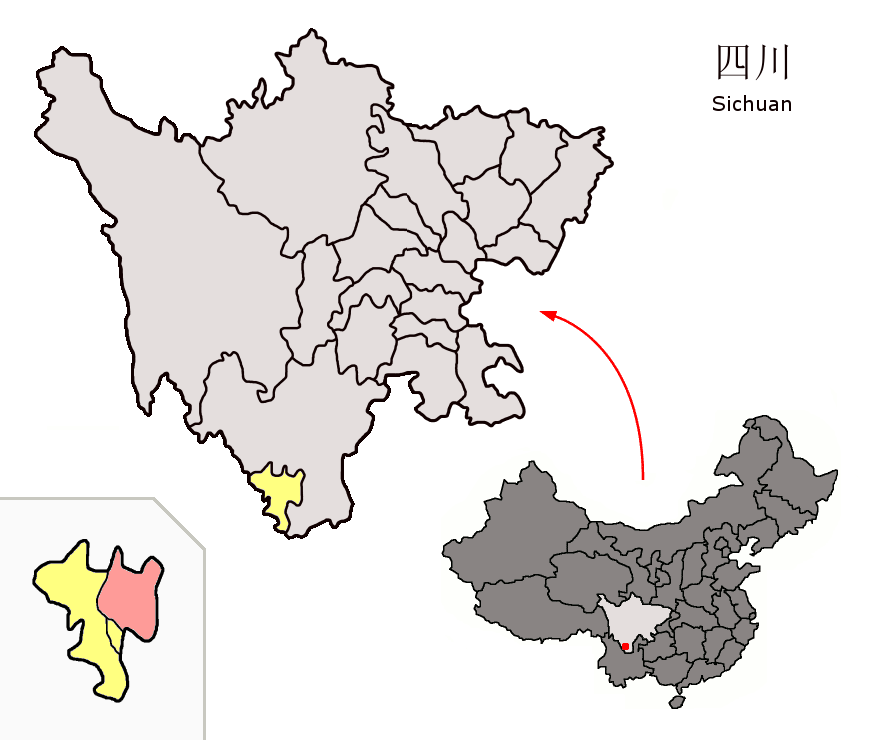 Location of Miyi County (pink) and Panzhihua Prefecture (yellow) within Sichuan province of China Map drawn in september 2007 using various sources, mainly : Sichuan province administrative regions GIS data: 1:1M, County level, 1990 Sichuan Counties map from